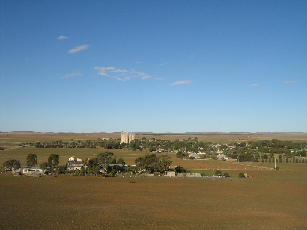 Another (higher-quality) photo from a hilltop overlooking the town